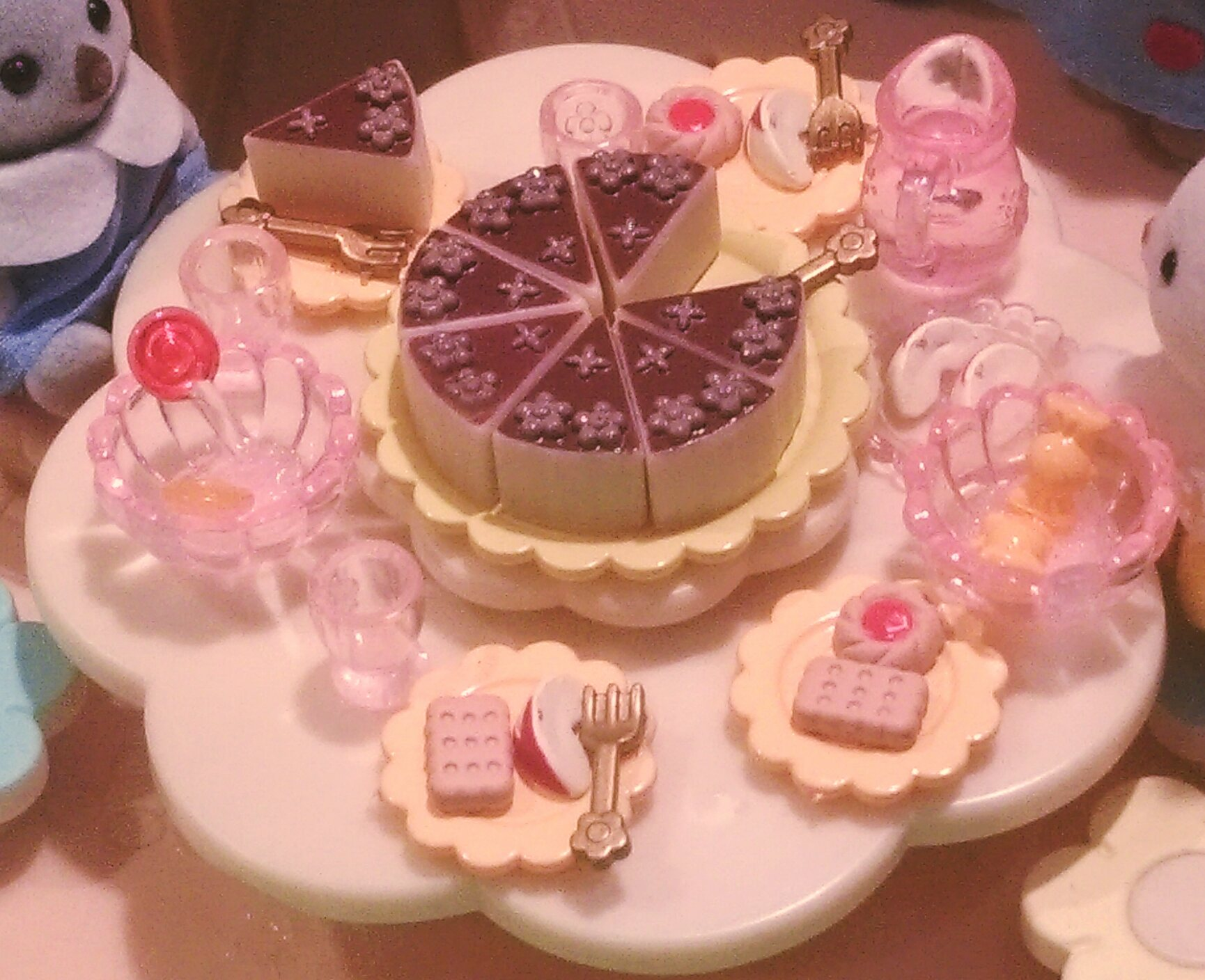 Miniature food and utensils